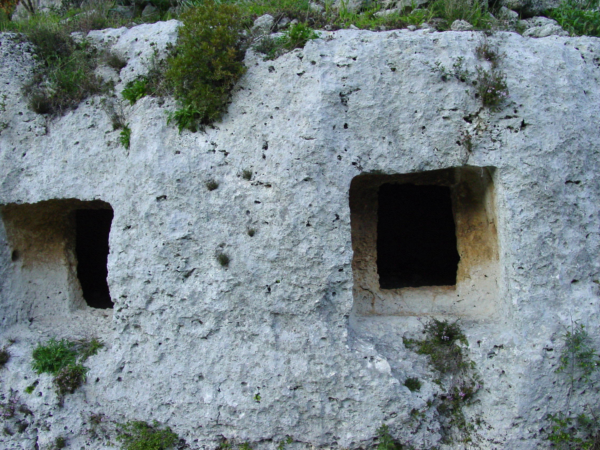 Tomb entrances in Pantalica